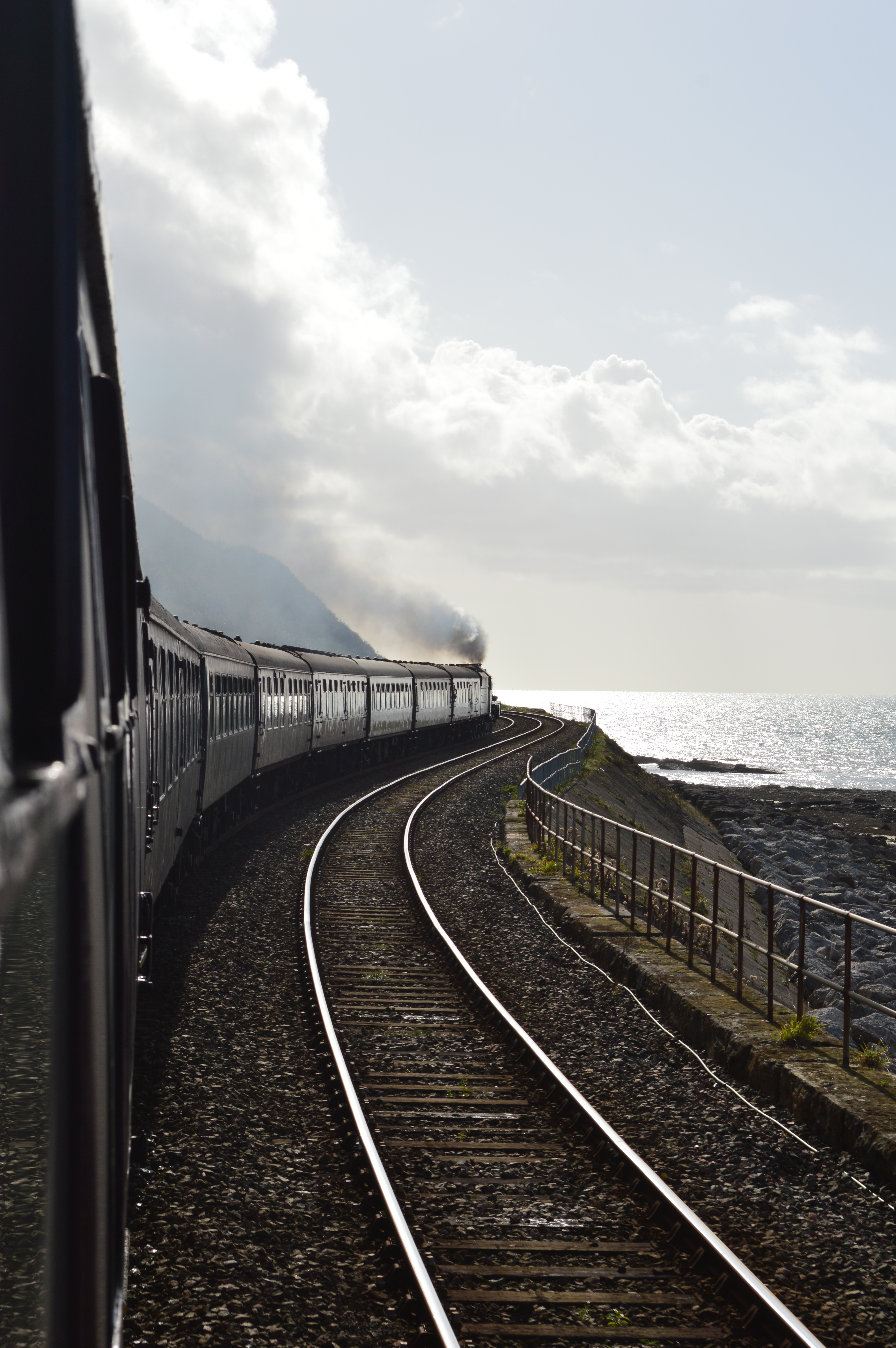 45690 Leander working south down the Cumbrian Coast line at Parton on Sat 30th September 2017. (Note: this shot was taken with only the camera outside the window)